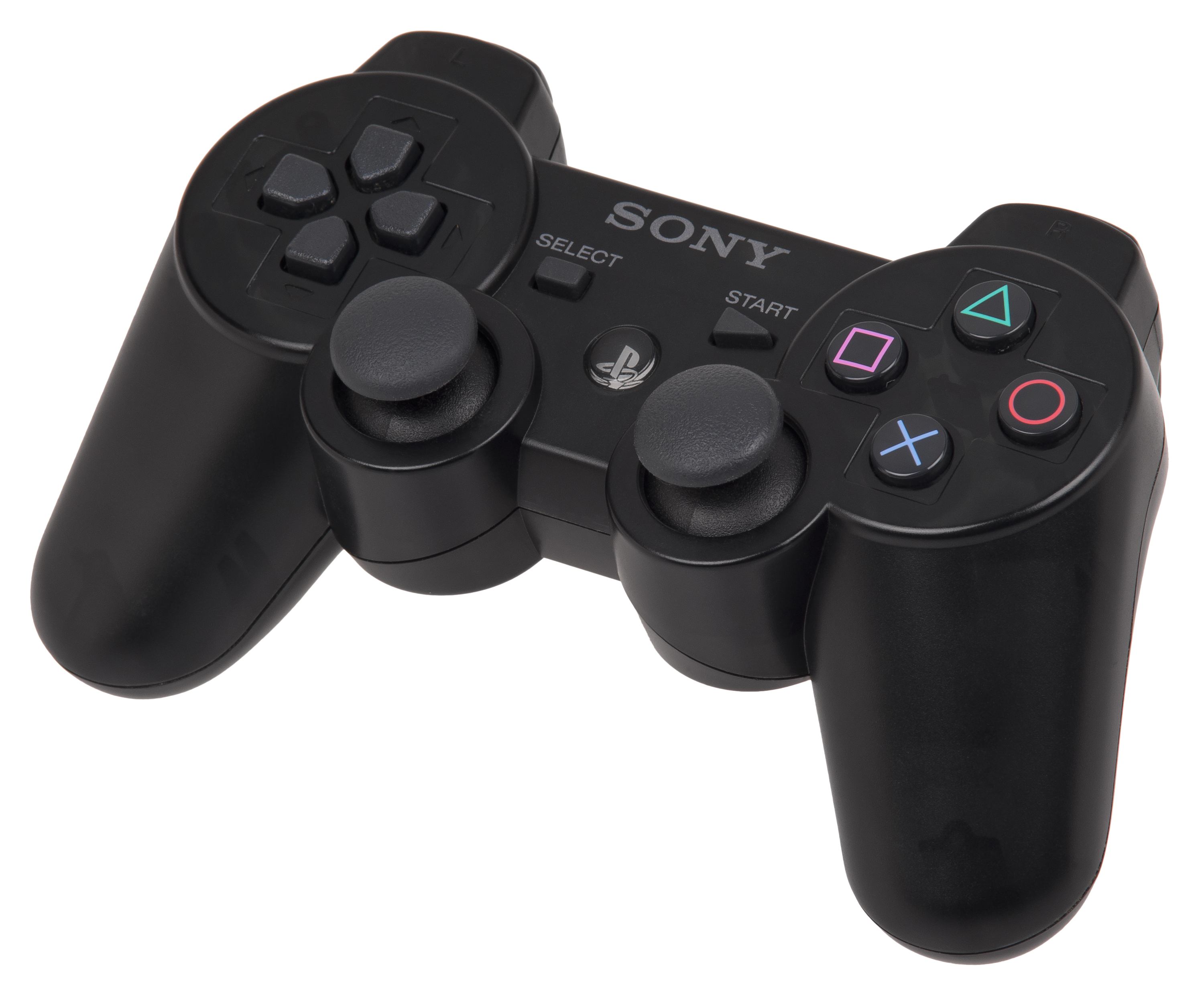 A Sony PlayStation 3 Sixaxis wireless controller, note that the casing is slightly translucent.